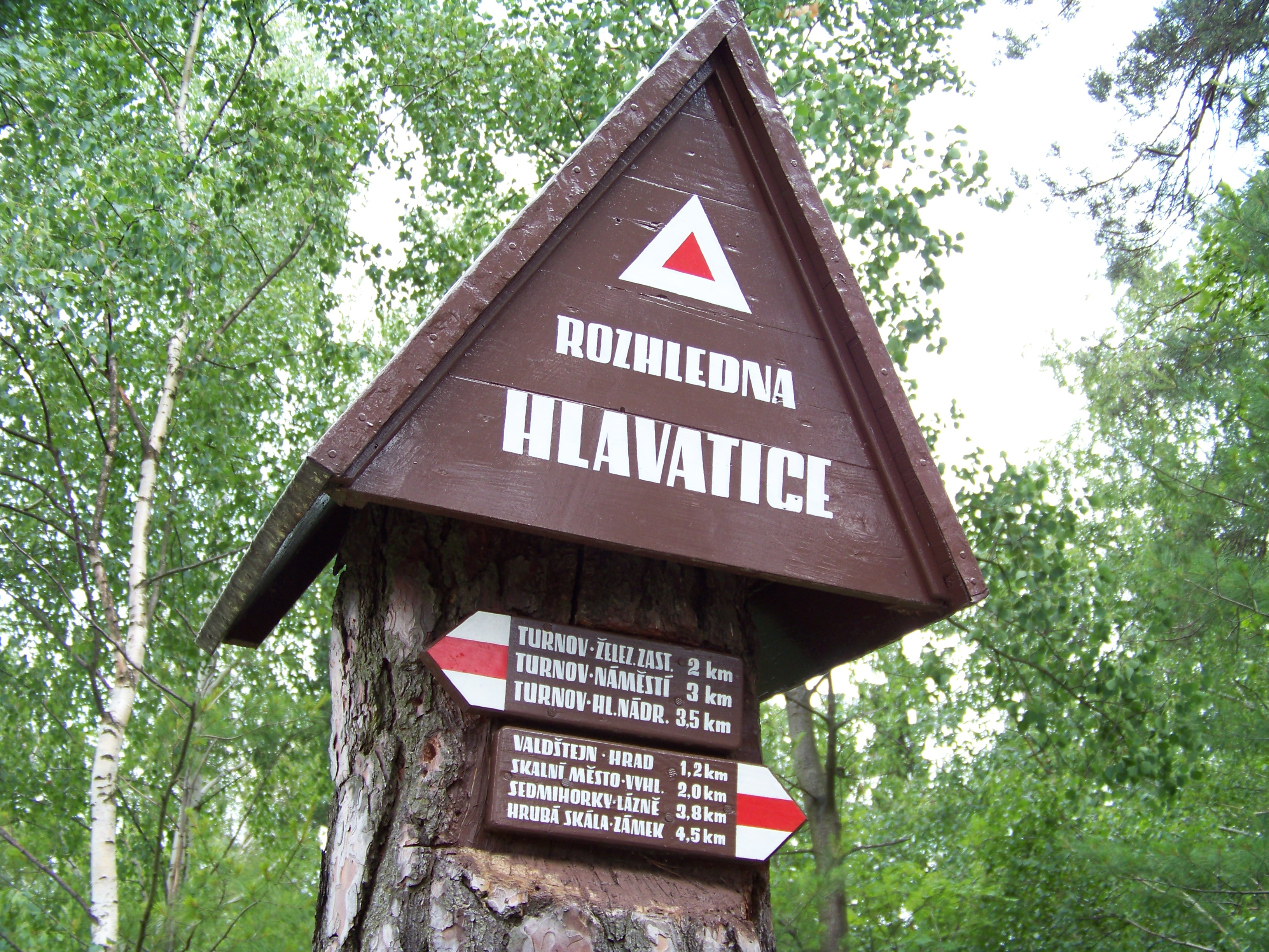 Turnov-Mašov, Liberec Region, the Czech Republic. Hiking signs neare view tower of Hlavatice. - Google Maps - Google Earth